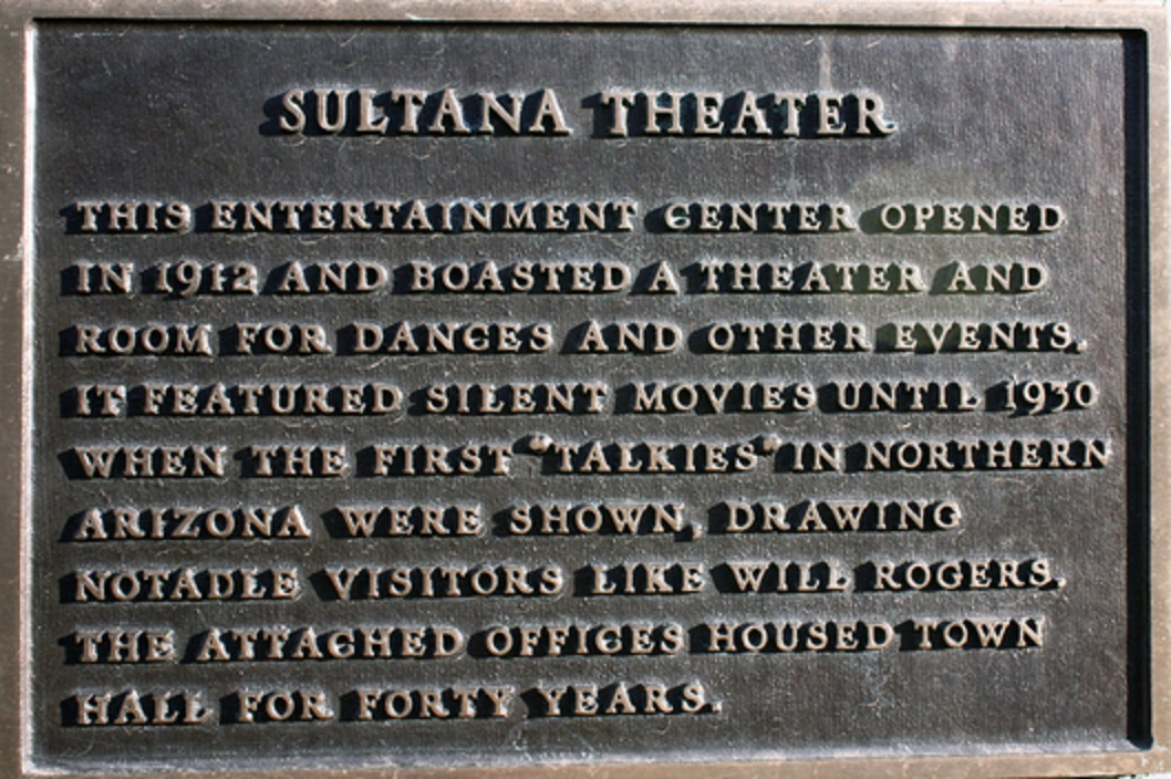 Sultana Theatre plaque located at 301 W. Route 66 in Williams, Arizona